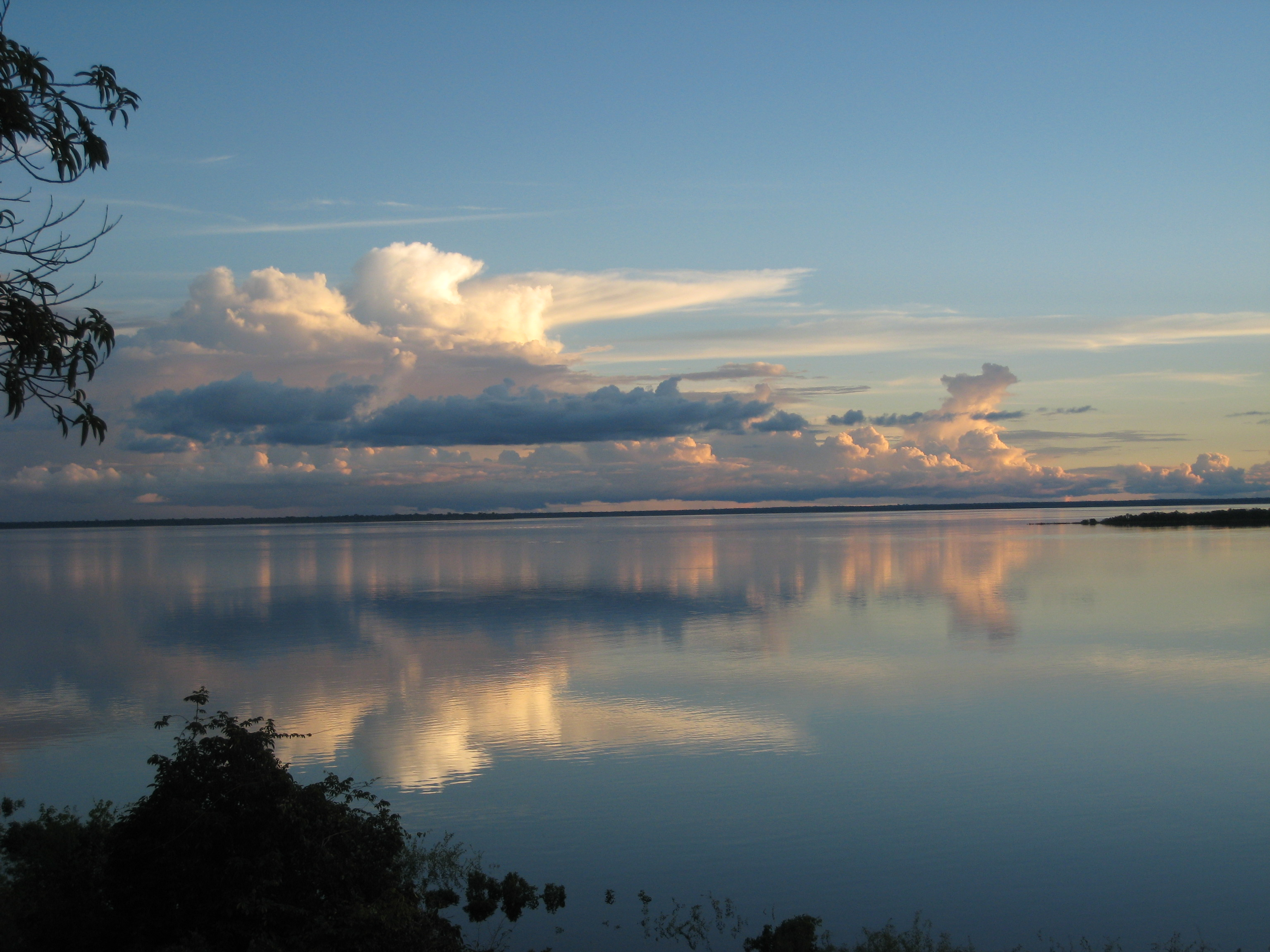 A Sunset over a river in the Brazilian Amazon, Either the Rio Negro, or the Rio Amazonas.